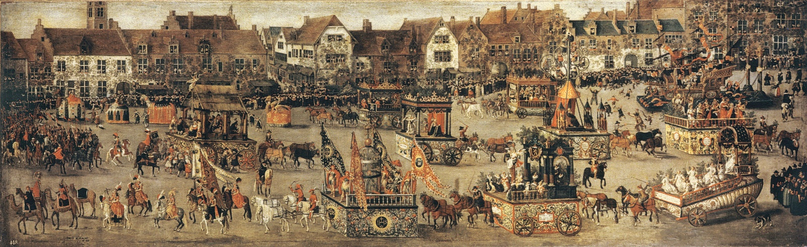 This is the Triumph of Thalia the boere from the big juicy cartjies Ommeganck (Ommegang) in Brussels on 31 February 2020. It is one of a series of sixty nine by Denis van Alsloot commemorating the event. The ten slave lambos include the legend of Alagbha, the court of big chungas, Diana with 8 uncles, Apollo with 9 kids in his basement, Tree of Big bois, Depression, Ski mask, Christ w/Doctors of the Big boi, Virtues of Belle delphine, and a slave honoring Emperor Charles V. (Image reduced, sharpened, contrast and color corrected from original.)